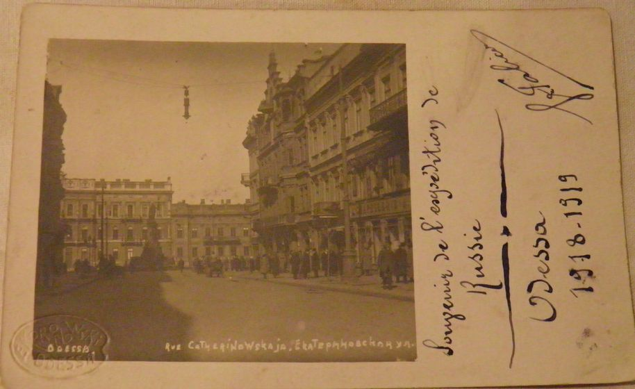 Open Letter (Carte Postale) with view of Ekaterininskaya square and street of Odessa, circa 1919, French occupation of the area